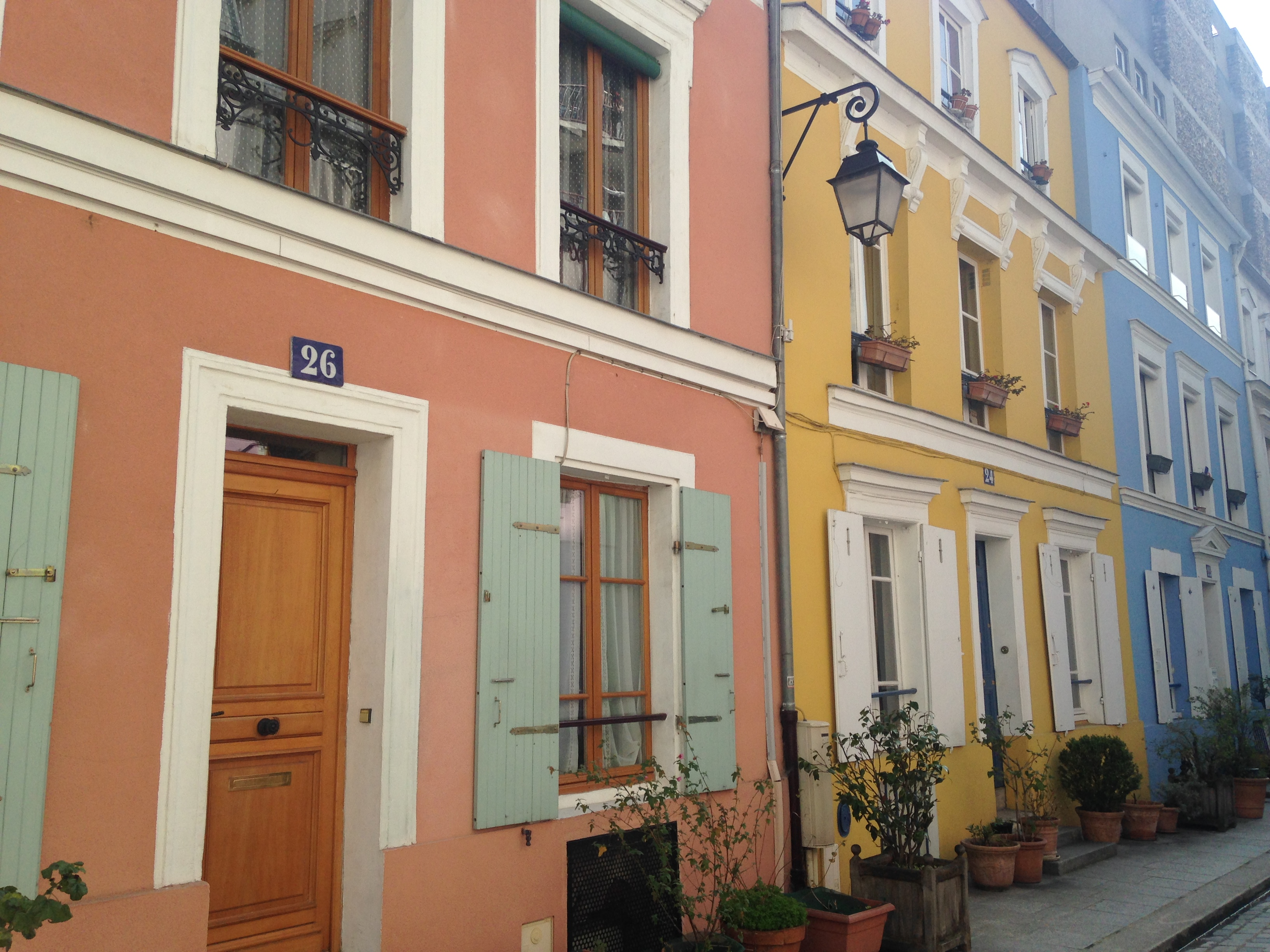 Rue Crémieux (Paris)